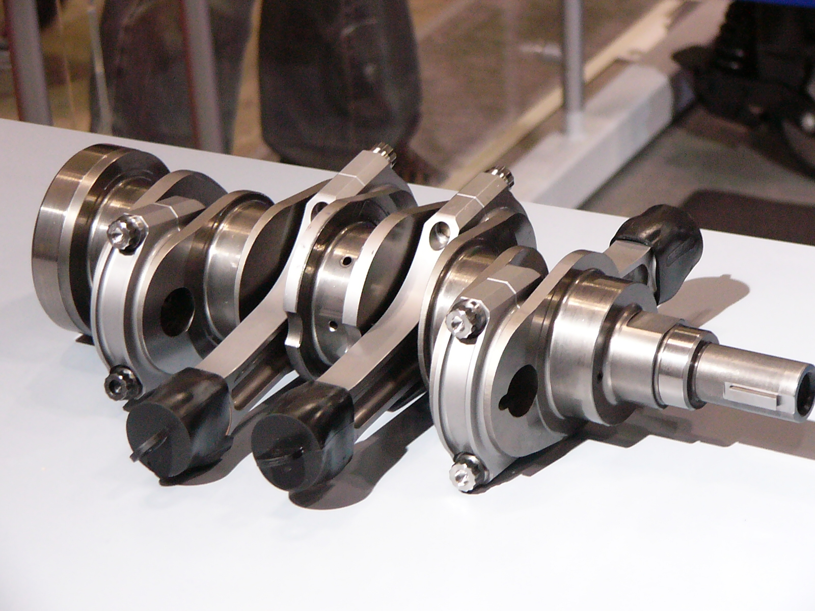 The crankshaft and connecting-rod of SUBARU EJ20 for WRC at Tokyo Auto Salon 2006.